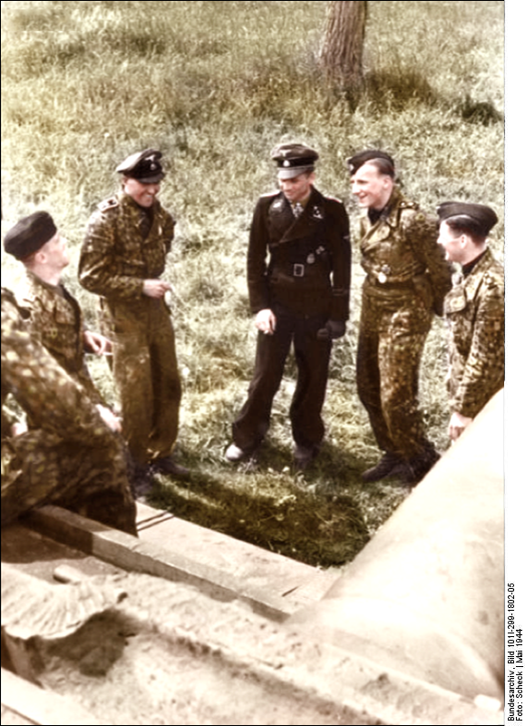 This is a retouched picture, which means that it has been digitally altered from its original version. Modifications: recolored. The original can be viewed here: Bundesarchiv Bild 101I-299-1802-05, Nordfrankreich, Michael Wittmann, Panzersoldaten.jpg: . Modifications made by Ruffneck88. Nordfrankreich, Michael Wittmann, Panzersoldaten Photographer ScheckArchive description Description provided by the archive when the original description is incomplete or wrong. You can help by reporting errors and typos at Commons:Bundesarchiv/Error reports. Frankreich-Nord.- Obersturmführer Michael Wittmann mit Eichenlaub zum Ritterkreuz (verliehen am 30. Januar 1944) mit Panzersoldaten vor Panzer VI "Tiger I"; PK 698Title Nordfrankreich, Michael Wittmann, Panzersoldaten Depicted people Wittmann, Michael: SS-Hauptsturmführer, Ritterkreuz, Waffen-SS, Deutschland (GND 119260573)Depicted place NordfrankreichDate May 1944date QS:P571,+1944-05-00T00:00:00Z/10Collection German Federal Archives Native nameDas BundesarchivLocationKoblenz (headquarters)Coordinates50° 20′ 32.71″ N, 7° 34′ 21.22″ E Established1946Web page control : Q685753 VIAF: 137346469 ISNI: 0000 0004 0555 2728 LCCN: n92025526 NLA: 36455393 Open Library: OL55798A WorldCat institution QS:P195,Q685753Current location Propagandakompanien der Wehrmacht - Heer und Luftwaffe (Bild 101 I)Accession number Bild 101I-299-1802-05 Source This image was provided to Wikimedia Commons by the German Federal Archive (Deutsches Bundesarchiv) as part of a cooperation project. The German Federal Archive guarantees an authentic representation only using the originals (negative and/or positive), resp. the digitalization of the originals as provided by the Digital Image Archive.